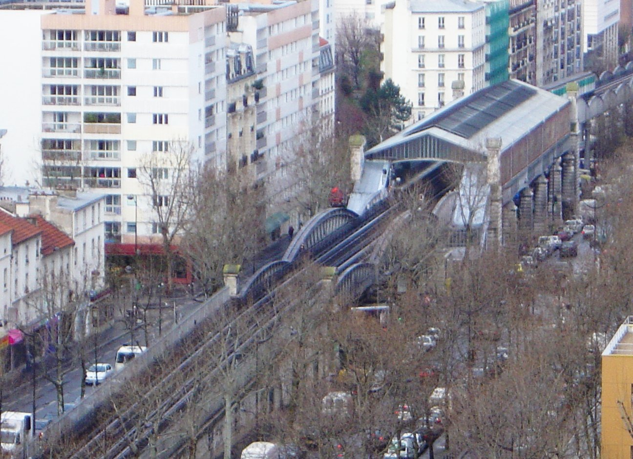 An aerial Paris Metro station (Nationale, line 6, seen from the south)